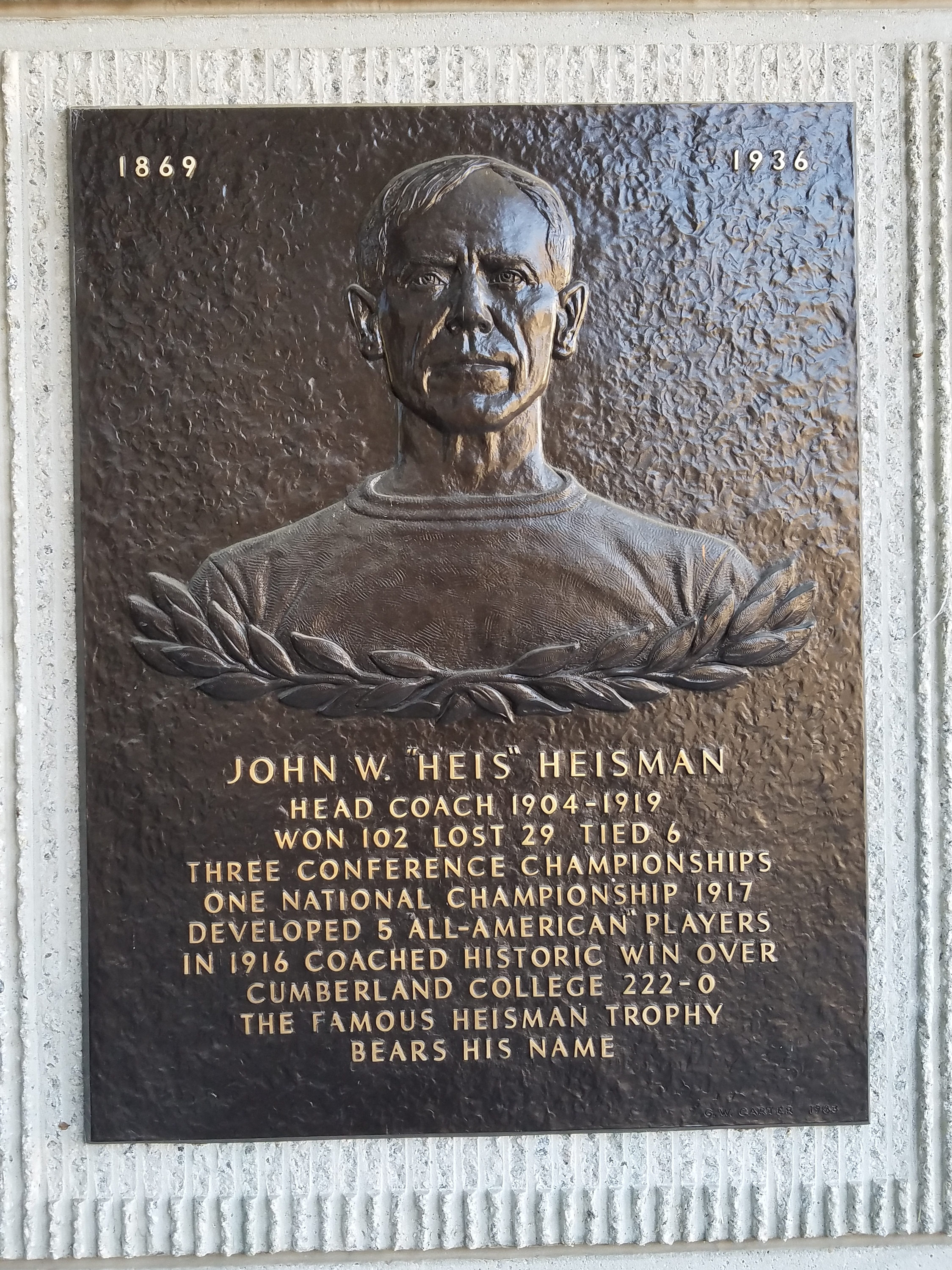 John Heisman plaque at the Edge Athletic Center at Georgia Tech.